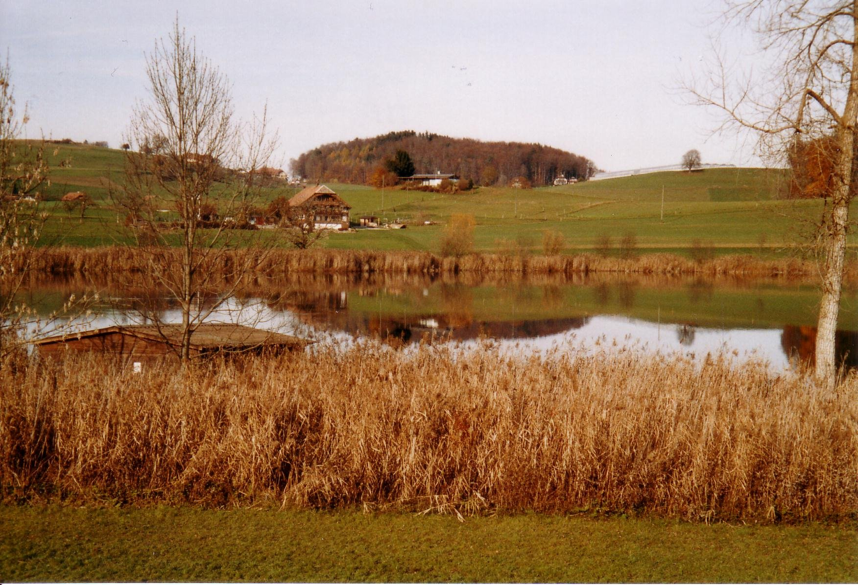 The lake Dittligsee at Längenbühl close to the municipalities of Blumenstein and Wattenwil, Canton of Berne, Switzerland.